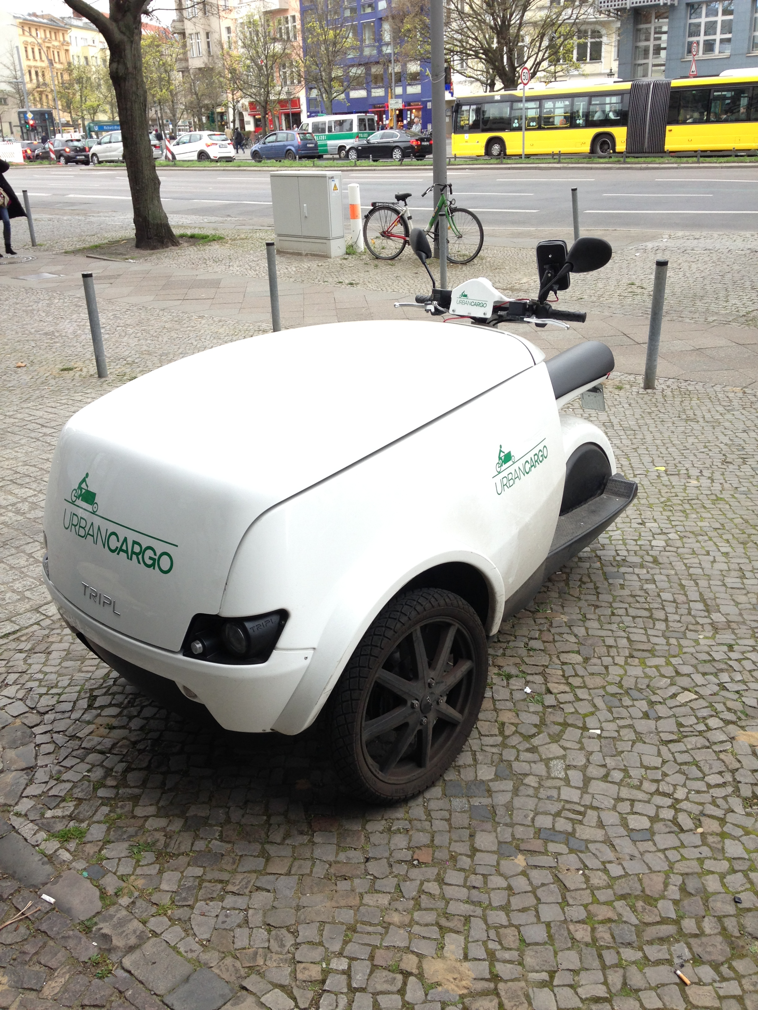 TRIPL electric cargo trike